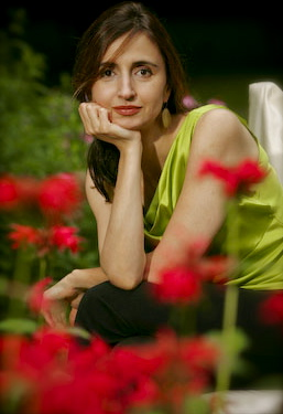 Roya Hakakian (Persian: رویا حکاکیان, born 1966 in Iran) is a Jewish Iranian-American writer.